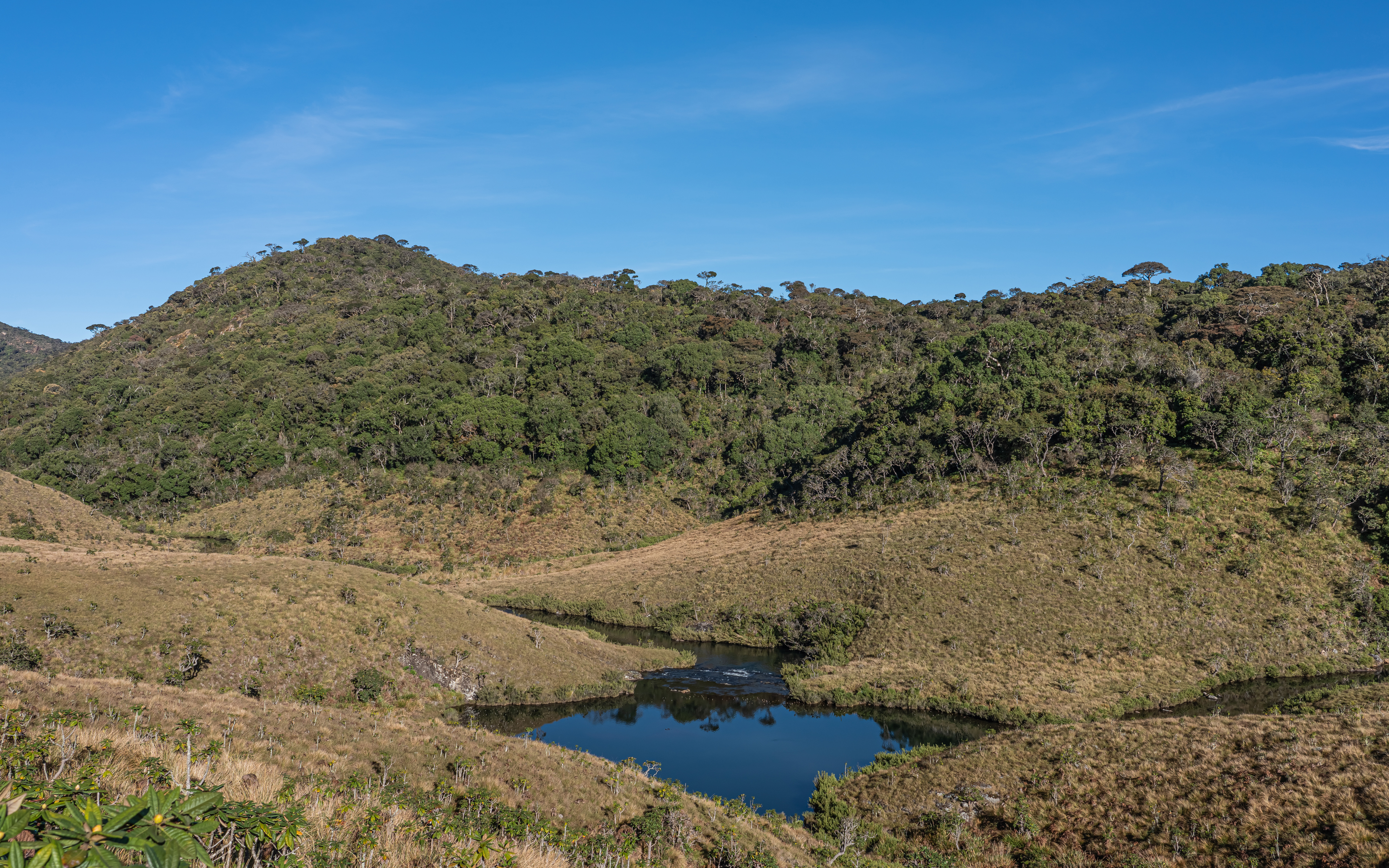 Landscape in the Horton Plains National Park, Sri Lanka